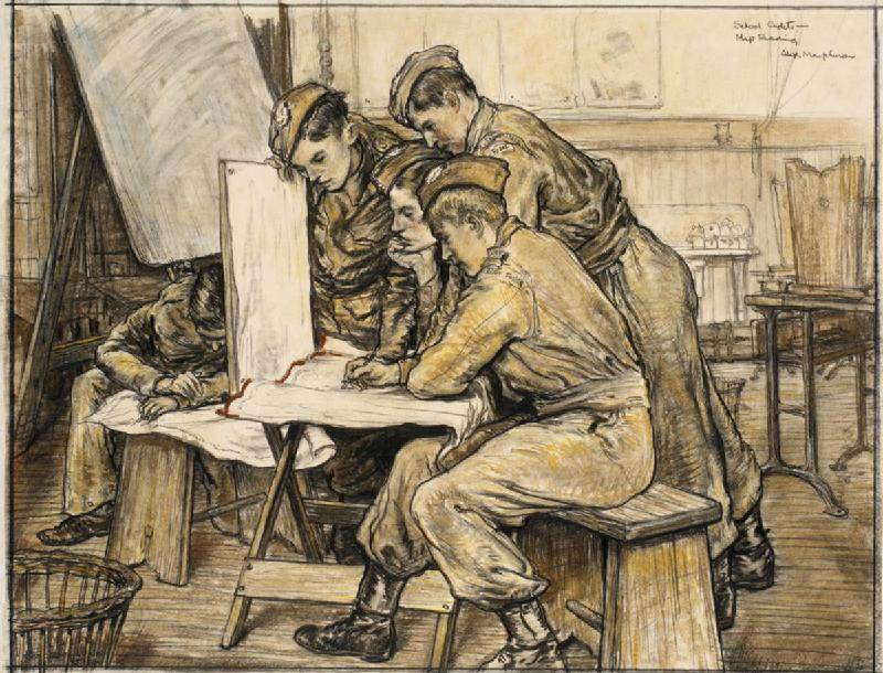 School Cadets Map Reading image: Four cadets in uniform track a route on one side of a screen in a schoolroom. A fifth boy reads directions from a map.